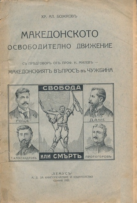 Macedonian_Liberation_Movement